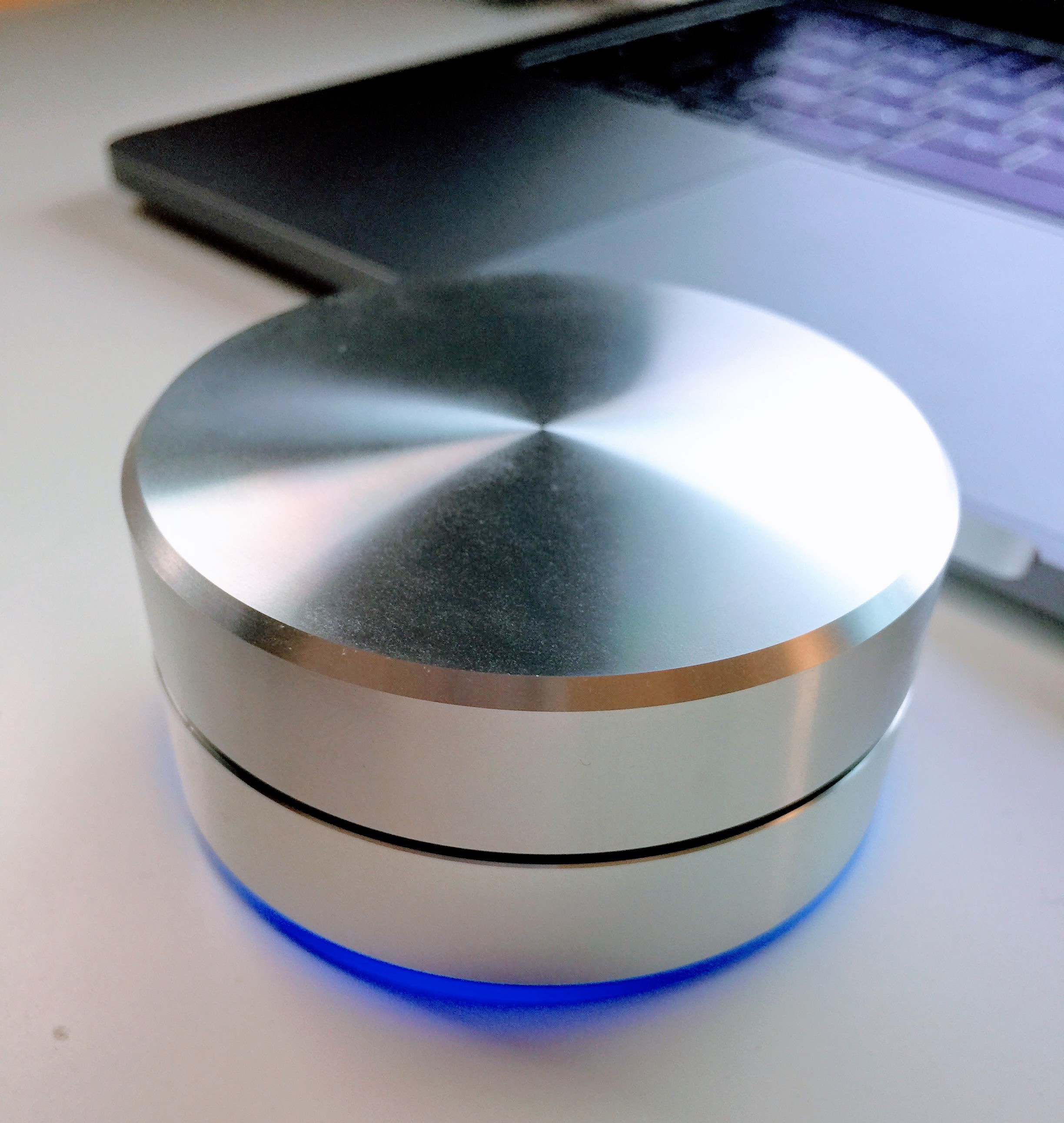 The PowerMate Bluetooth knob from Griffin Technologies